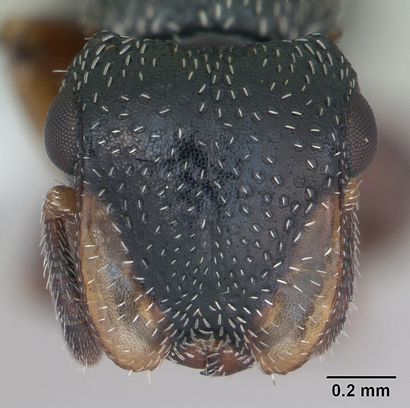 Head view of ant Cephalotes guayaki specimen casent0173677.